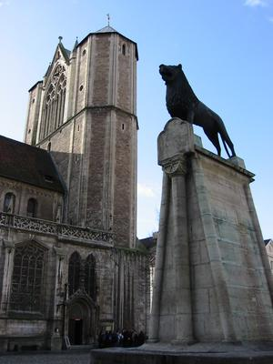 Photo of Cathedral at Brunswick (Germany), with the Lion statue